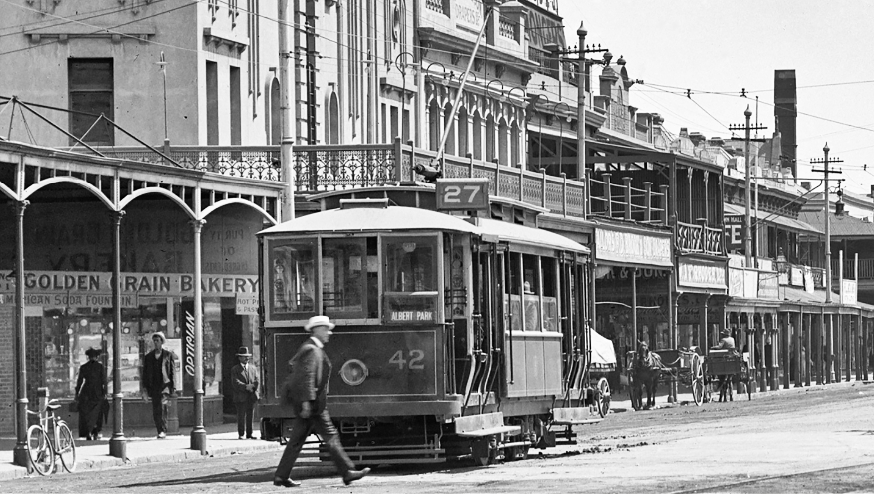 A Municipal Tramways Trust Type A2 electric tram in Saint Vincent Street, Port Adelaide. This type of tram was converted from Type B "toastrack" cars, as described in the Wikipedia article "Tram types in Adelaide".